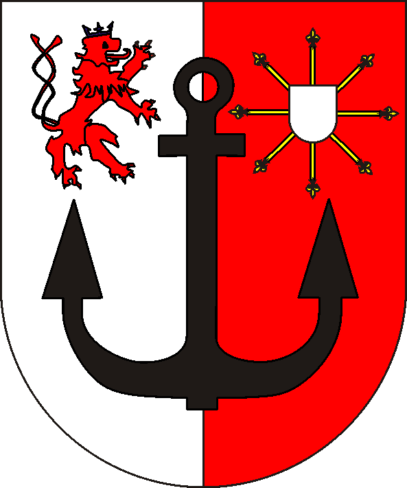 coats of arms of grandduke of Berg (Murat)